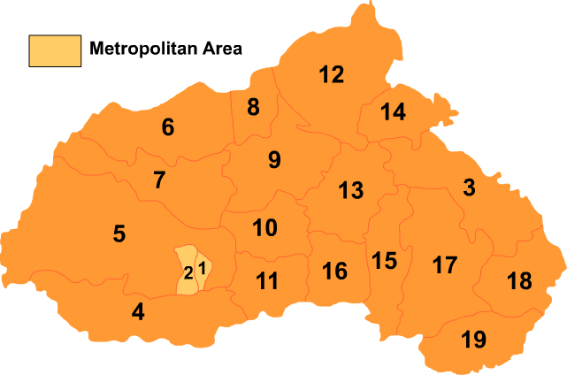 Map of Xingtai in Hebei province